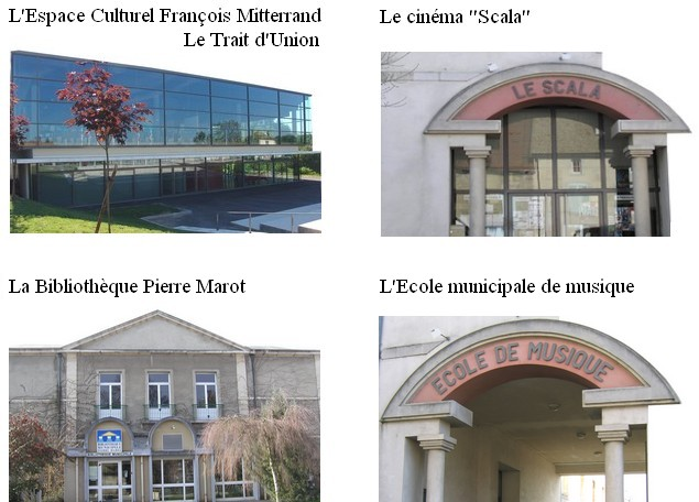 Cultural places in Neufchâteau